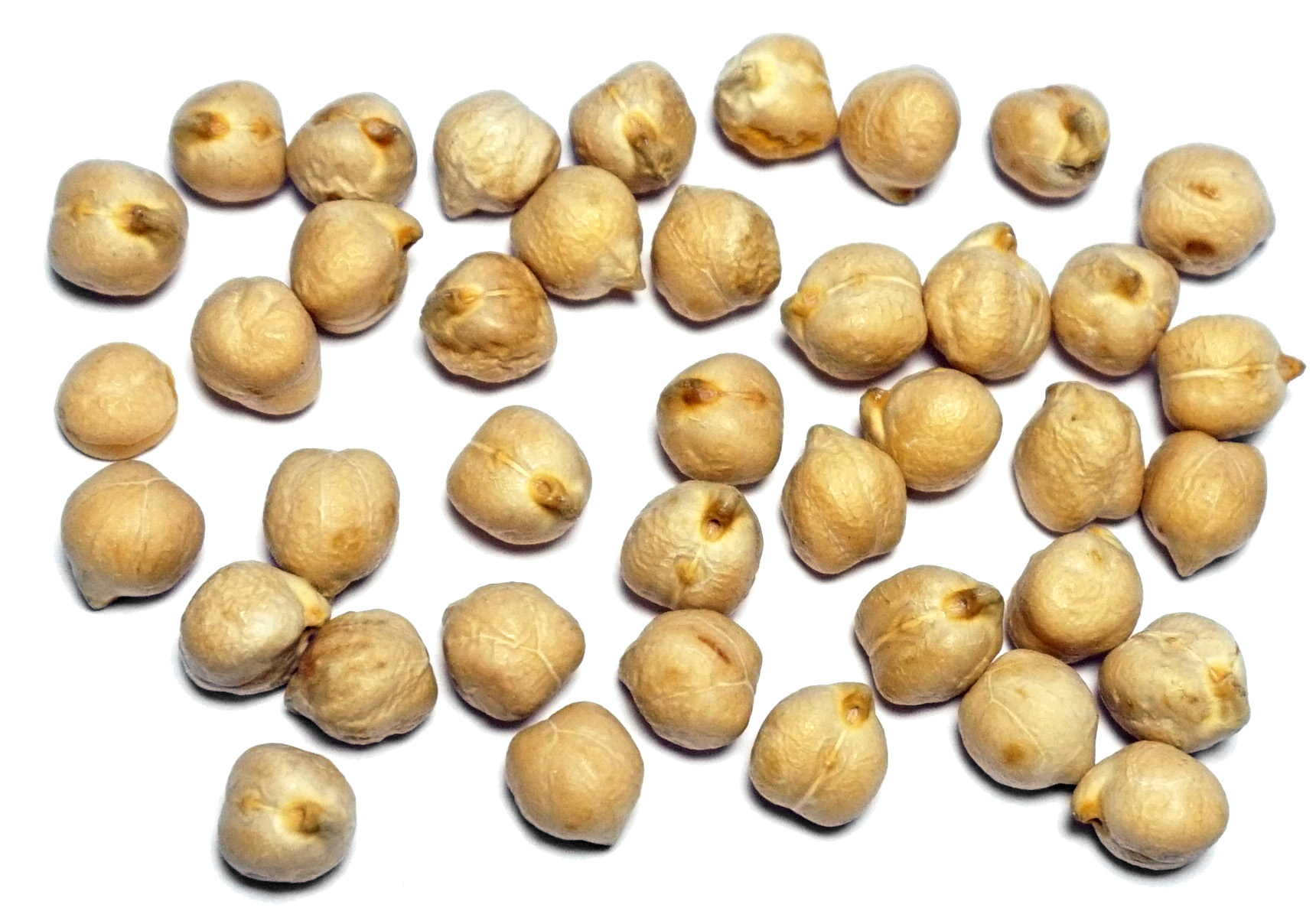 Chickpeas